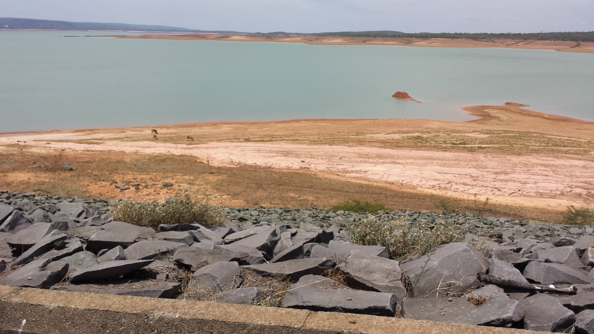 Cows grazing in a dry ground between the lake with the net storage volume of 2.7% and Três Marias dam.